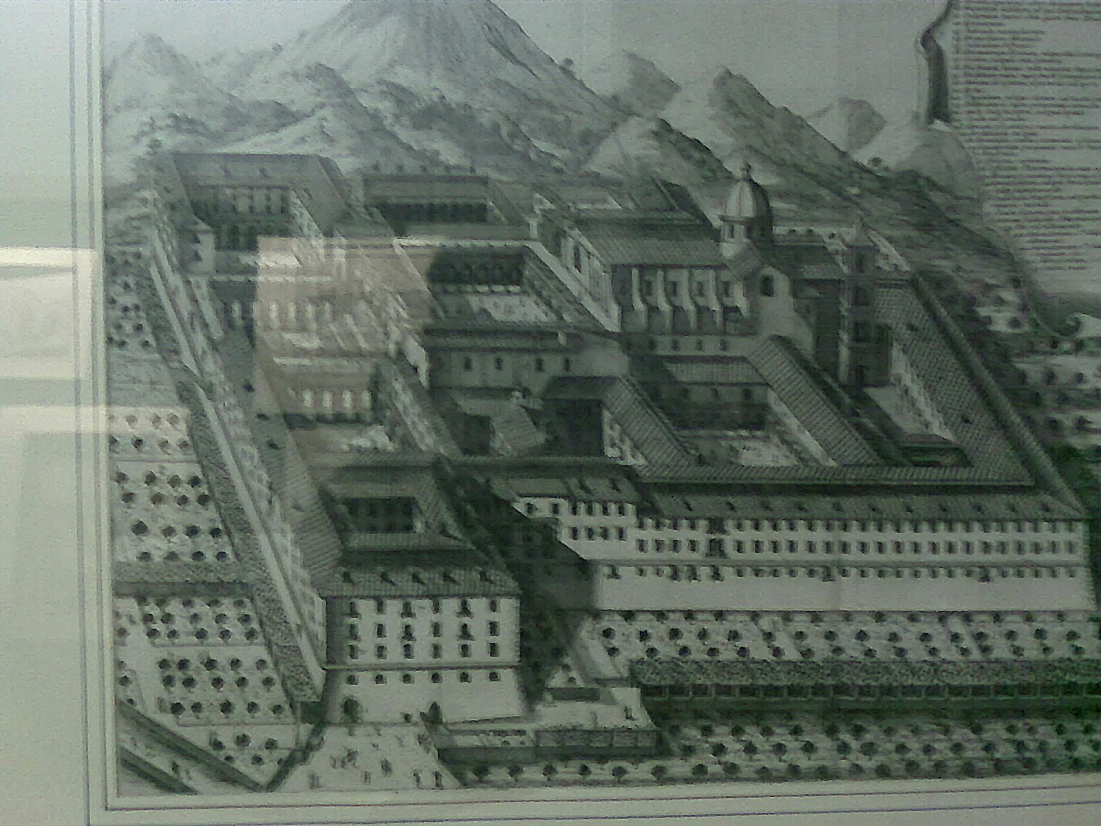 Montecassino Abbey (museum): Drawing created by Arcangelo Guglielmelli (1648-1723) a neapolitan architect